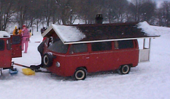 Mobile sauna in converted volkswagen bus